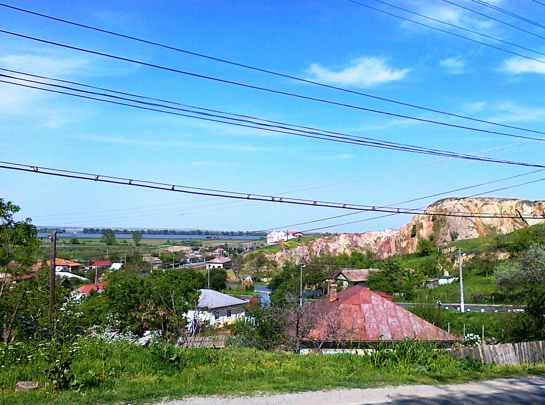 Isaccea, the western entrance to the town. The Danube seen in the background.